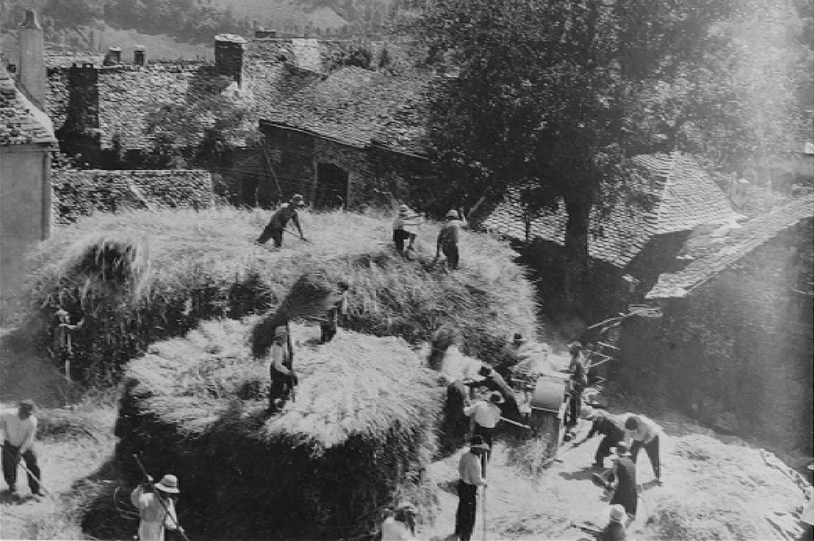 Threshing of wheat; Pomayrols, Aveyron, France